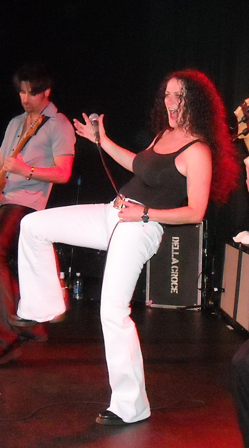 Darby Mills with The Headpins at The Deerfoot Casino in Calgary, Alberta